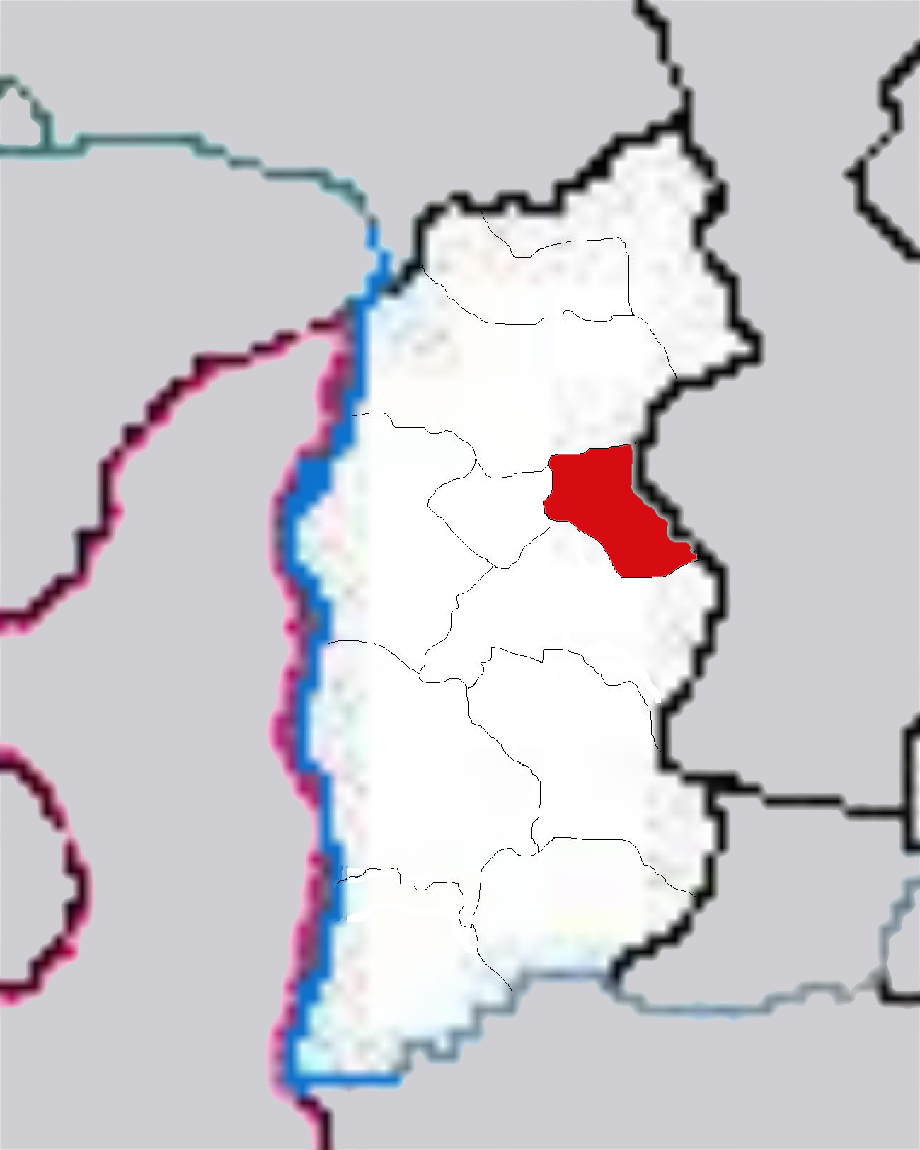 Maps of Shanxi Province of China